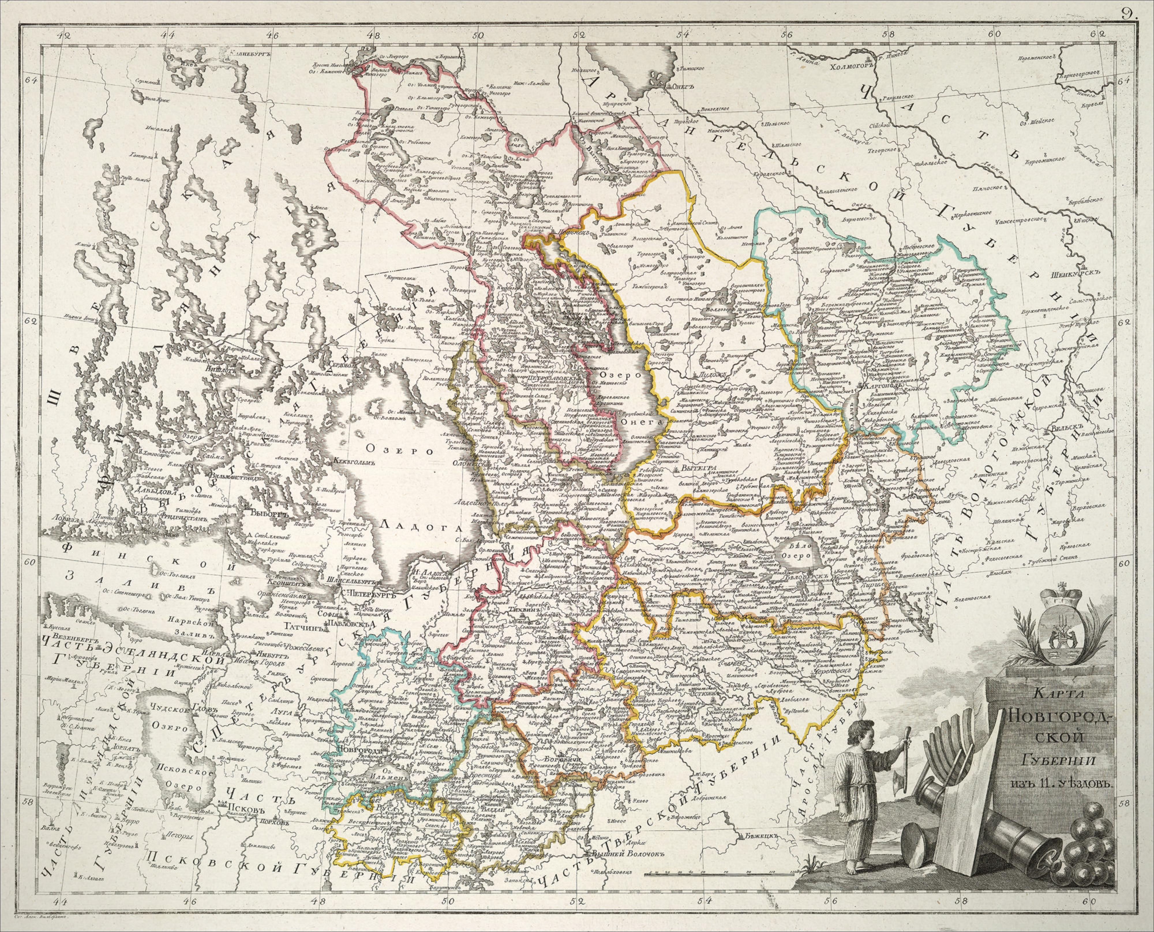 Atlas of Russian Empire. 1800 year. List 9. Novgorodskaya Province from 11 uyezds